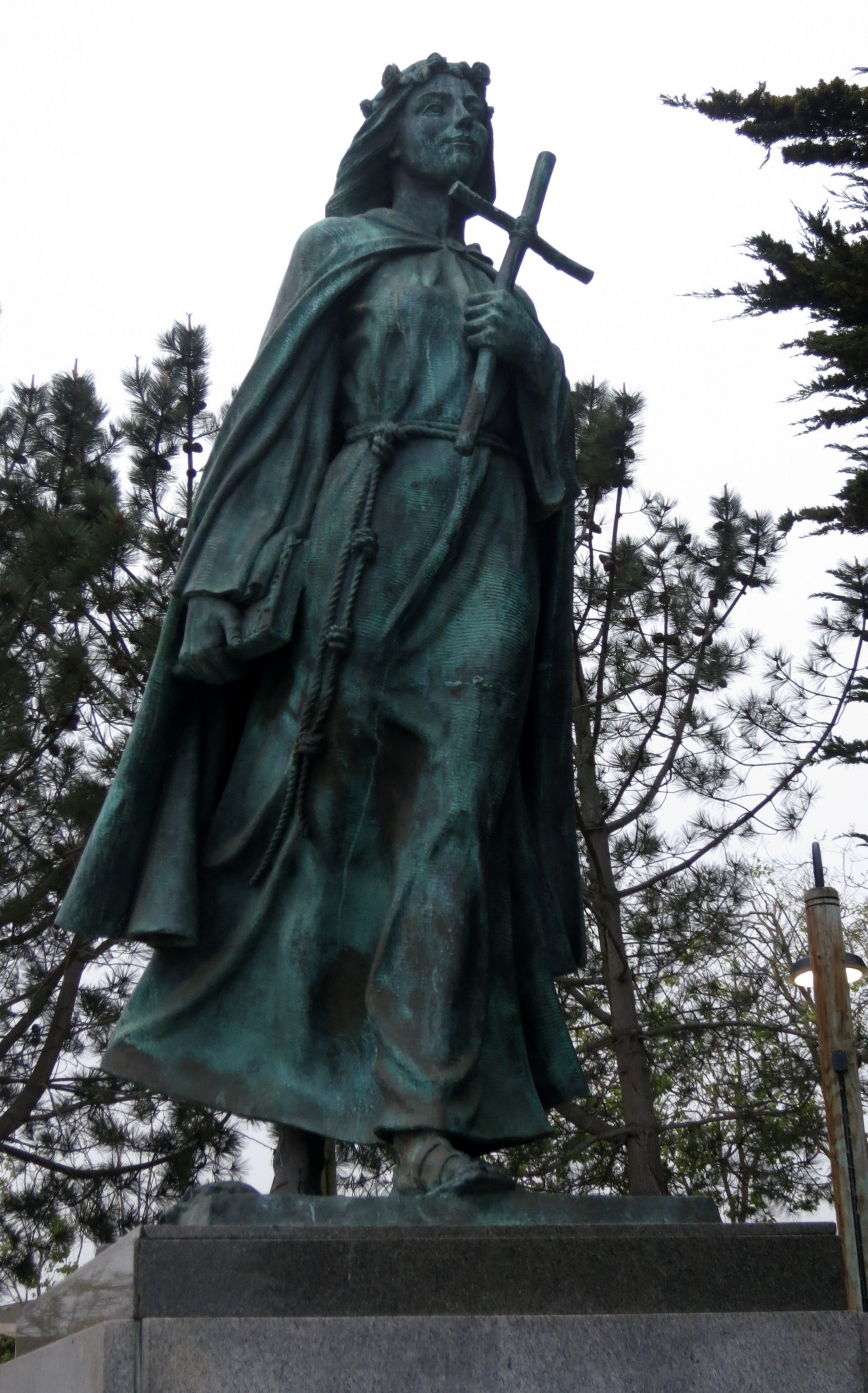 Statue of Saint Rosalia, patron saint of Italian fishermen (Monterey, California)